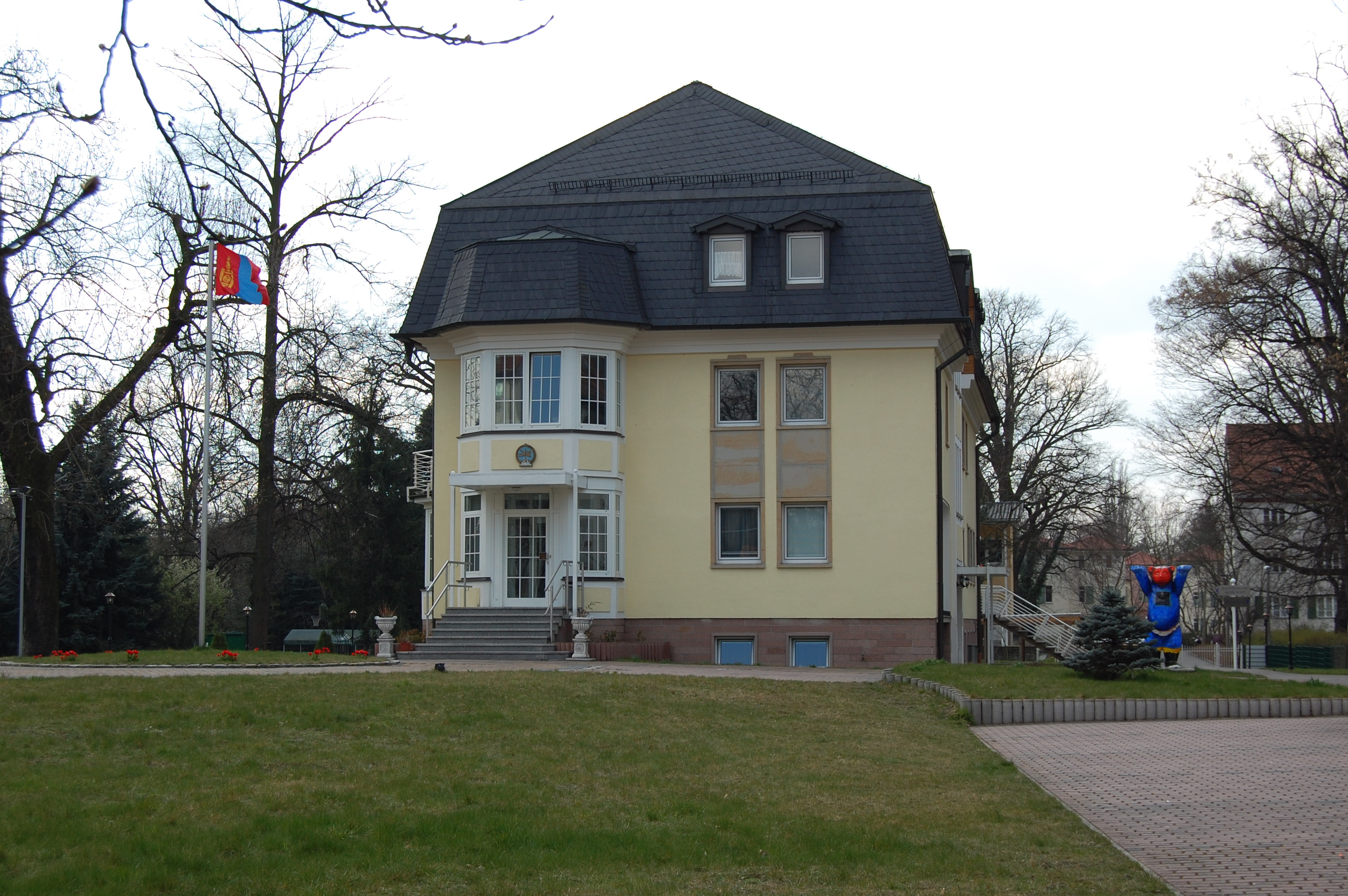 Embassy of Mongolia in Berlin